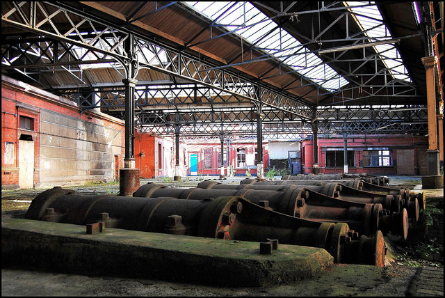 The closed Manchester Mayfield station